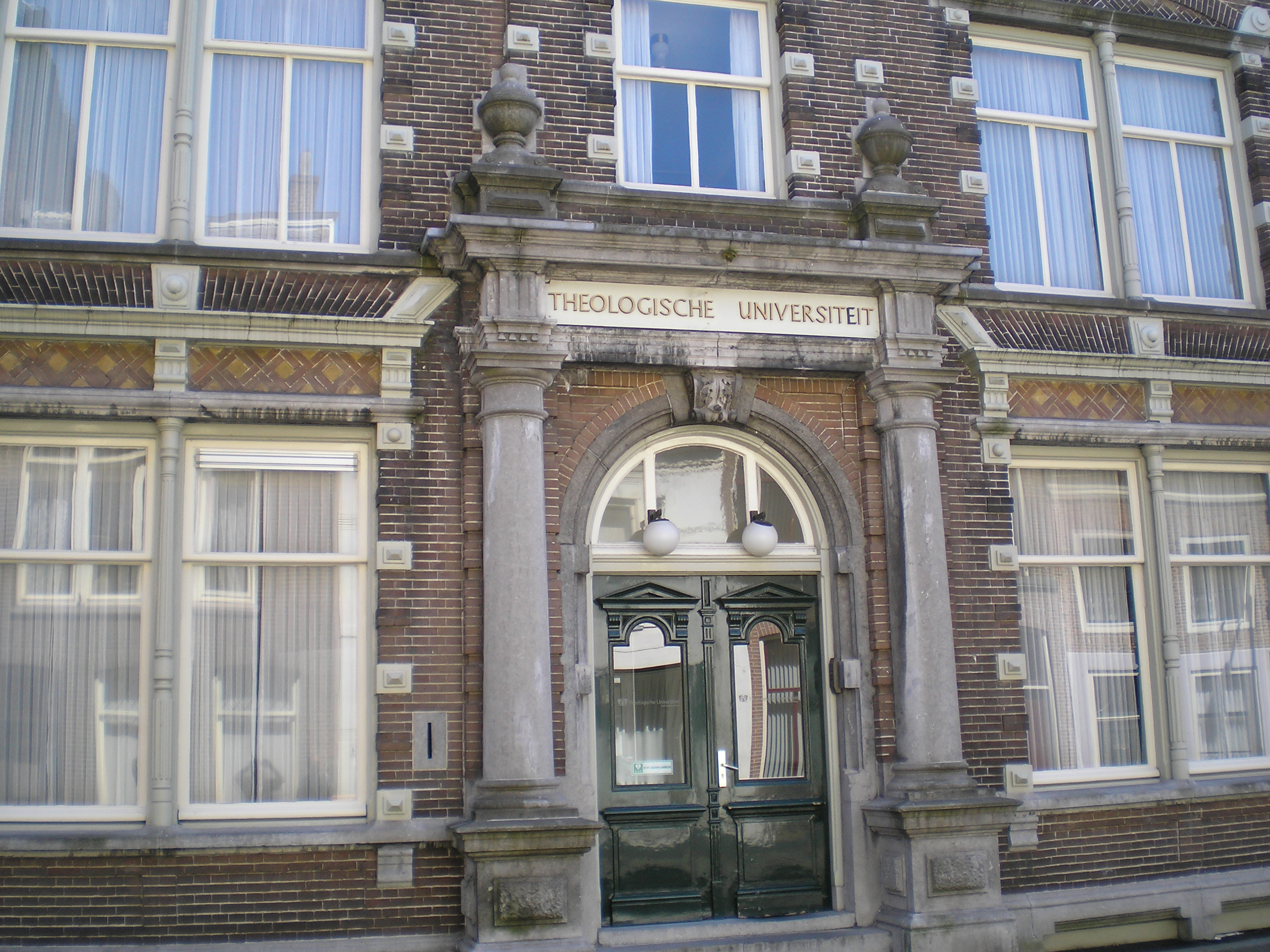 Theological University of the Broederweg 15 in Kampen in the Netherlands